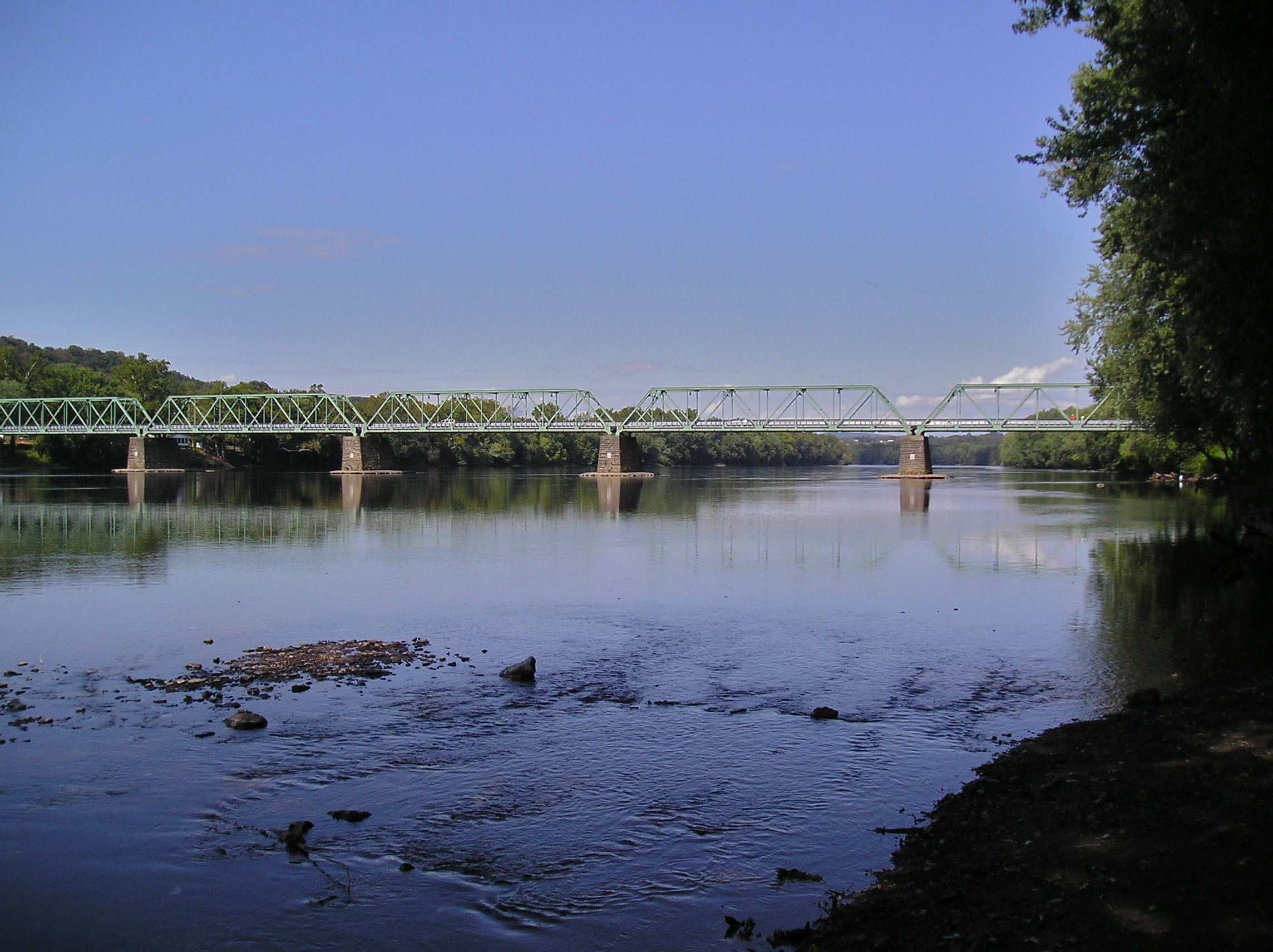 View from the south New Jersey bank of Uhlerstown Frenchtown bridge.